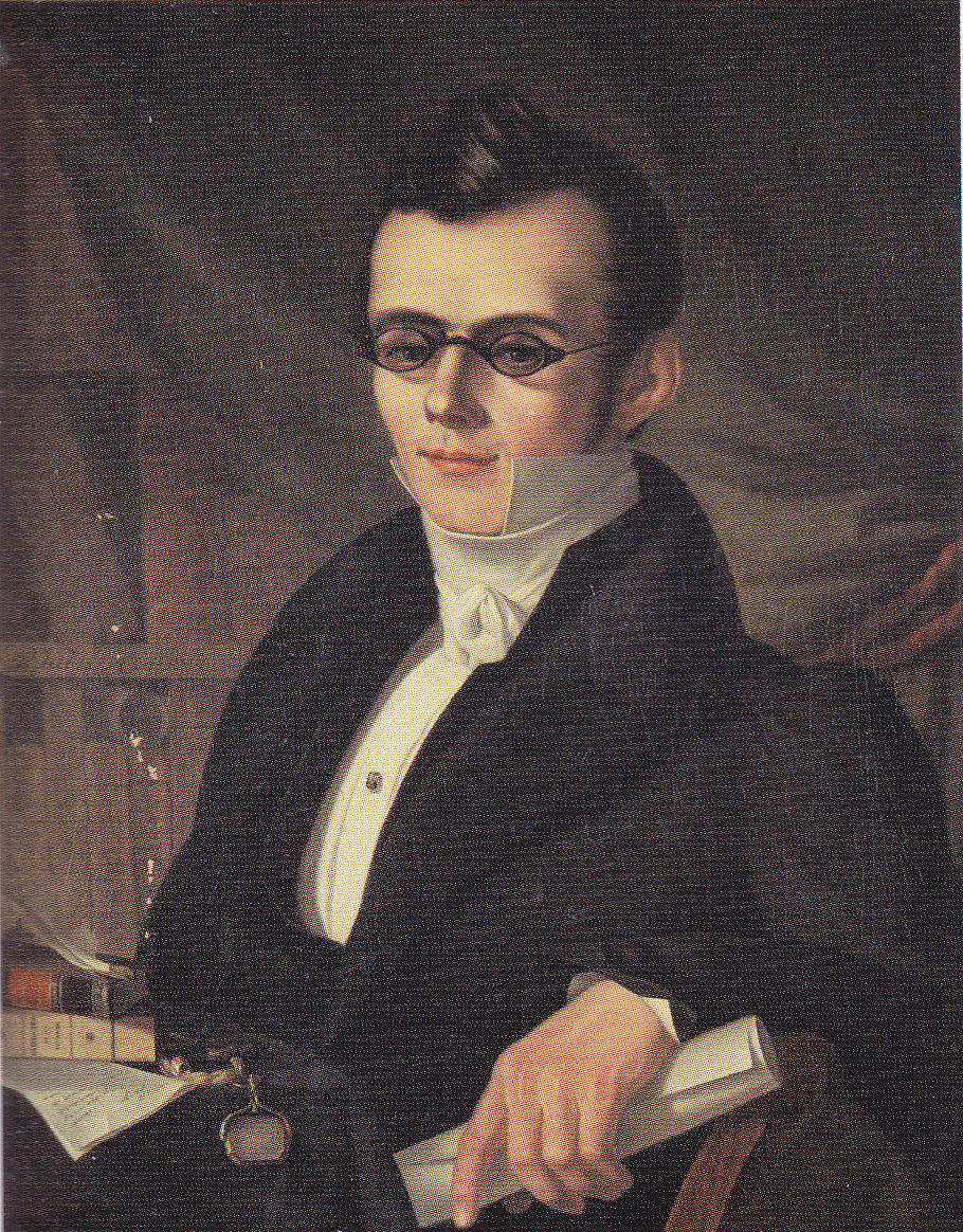 Dutch writer Aarnout Drost (1810-1834) by Petrus Kiers (1807-1875)